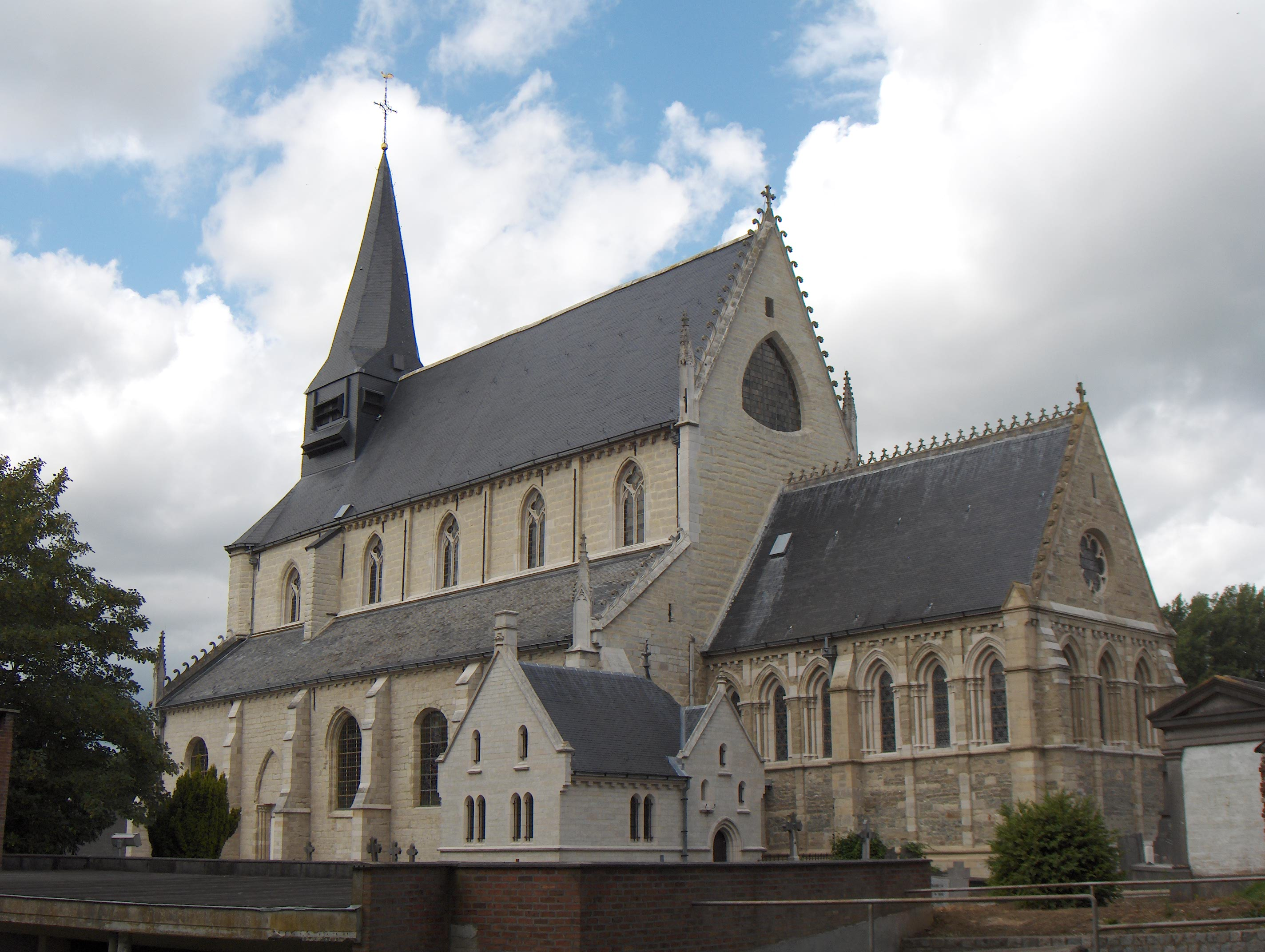 Mediaeval church devoted to Our Lady in Onze-Lieve-Vrouw-Lombeek, municipality of Roosdaal in Belgium